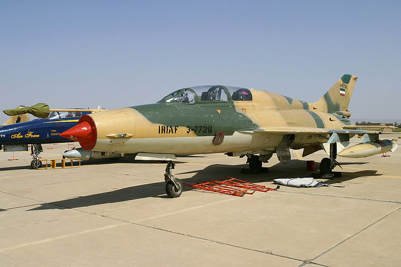 A F-7 fighter of The Islamic Republic of Iran Air Force.